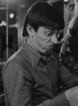 Ismael Echeverría- actor